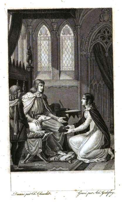 Marie de France presents her book to Henry II of England. From the first edition of Marie de France's works.